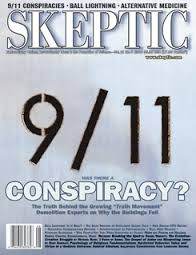 Cover on the 9/11 conspiracies [1]